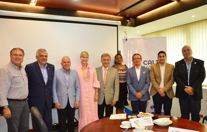 Comité Directivo de los Juegos Panamericanos Junior Cali Valle 2021, con todos sus miembros.